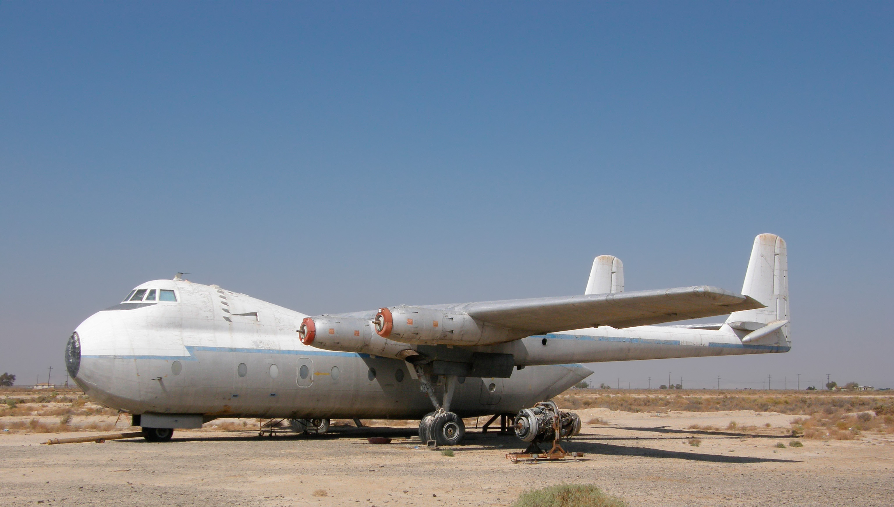 Armstrong Whitworth AW.660 Argosy XP447 at the Milestones of Flight Museum, Lancaster California